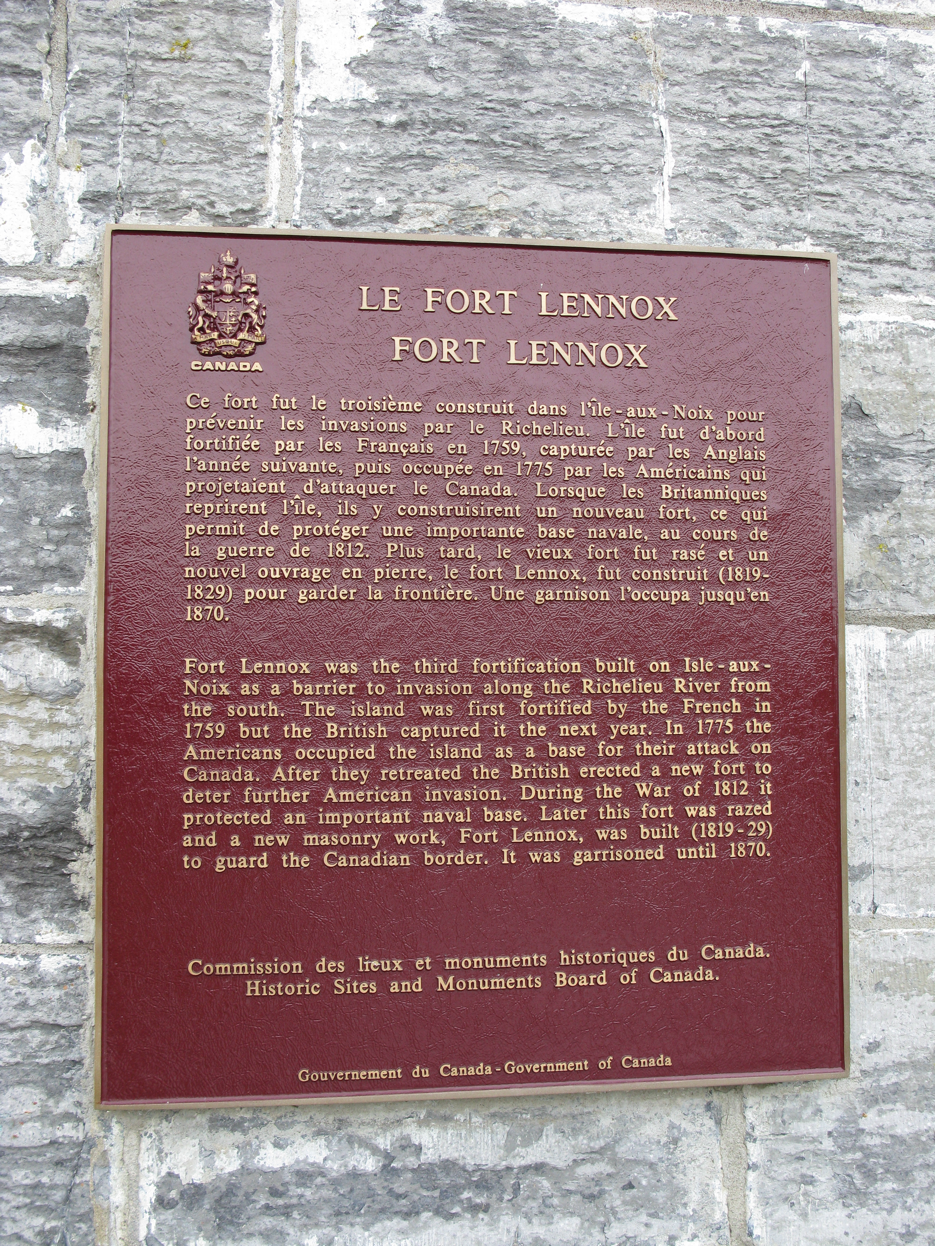 Commemorative plaque located at the entrance of Fort Lennox.